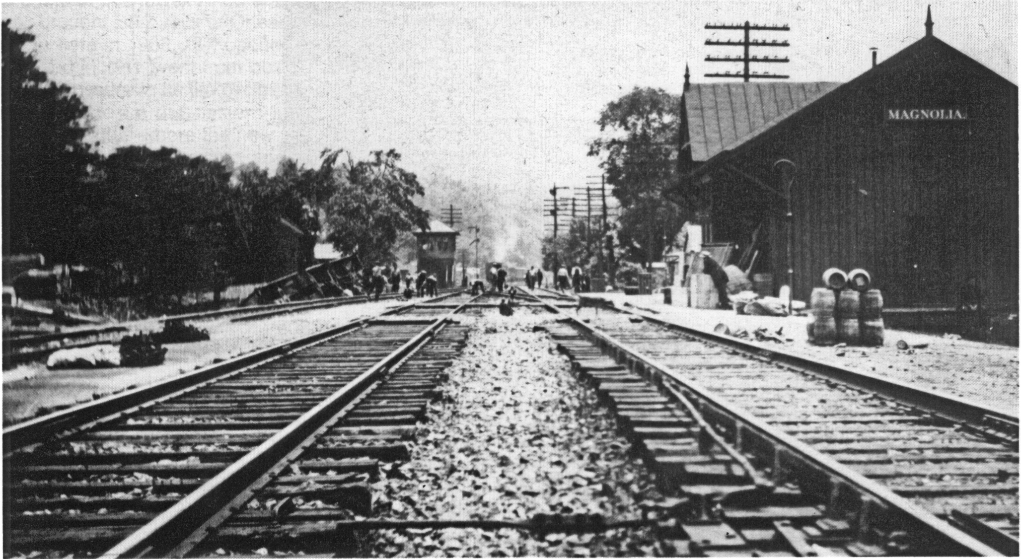 Magnolia Station, unknown photographer